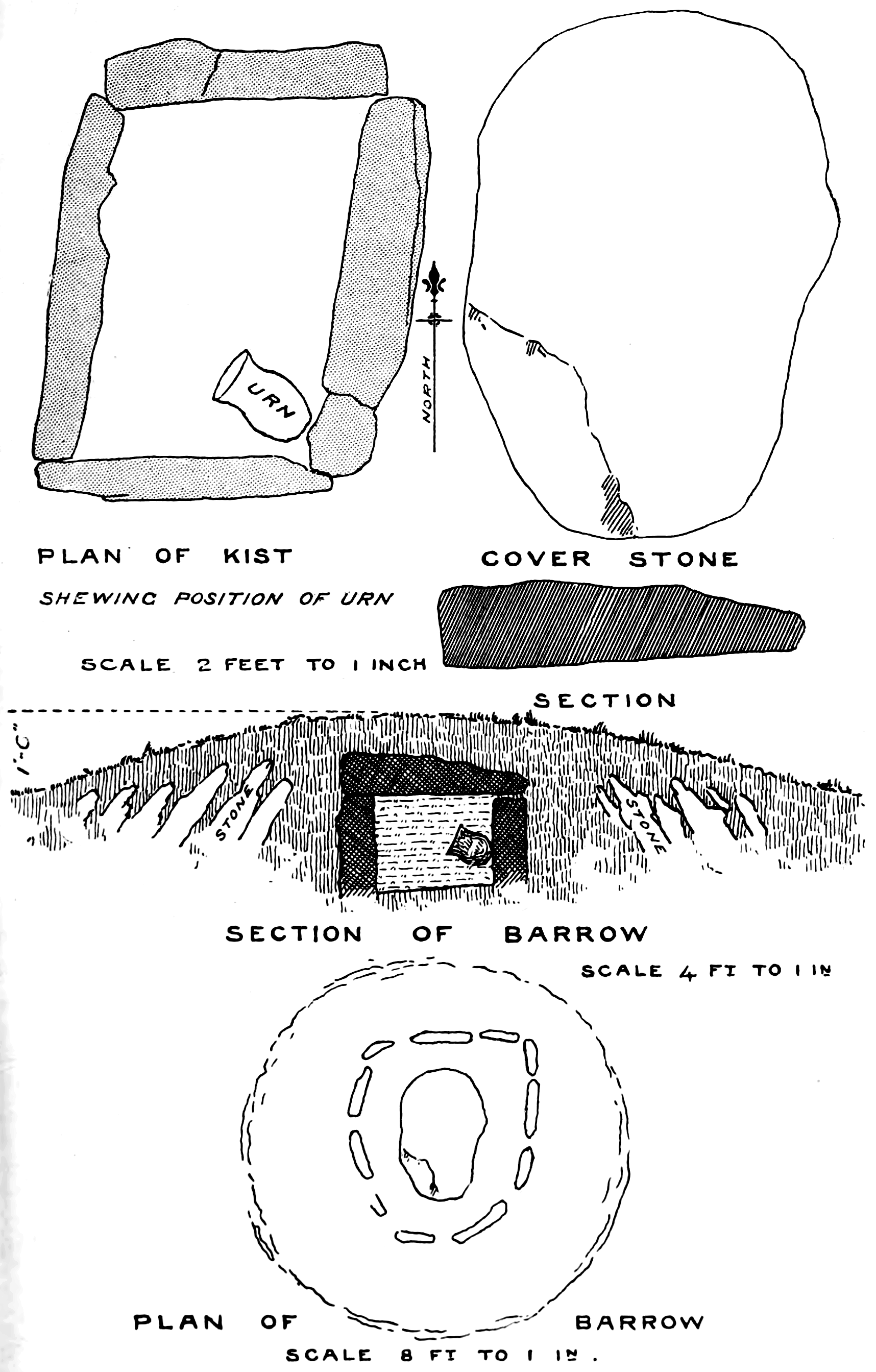 Barrow on Chagford Common